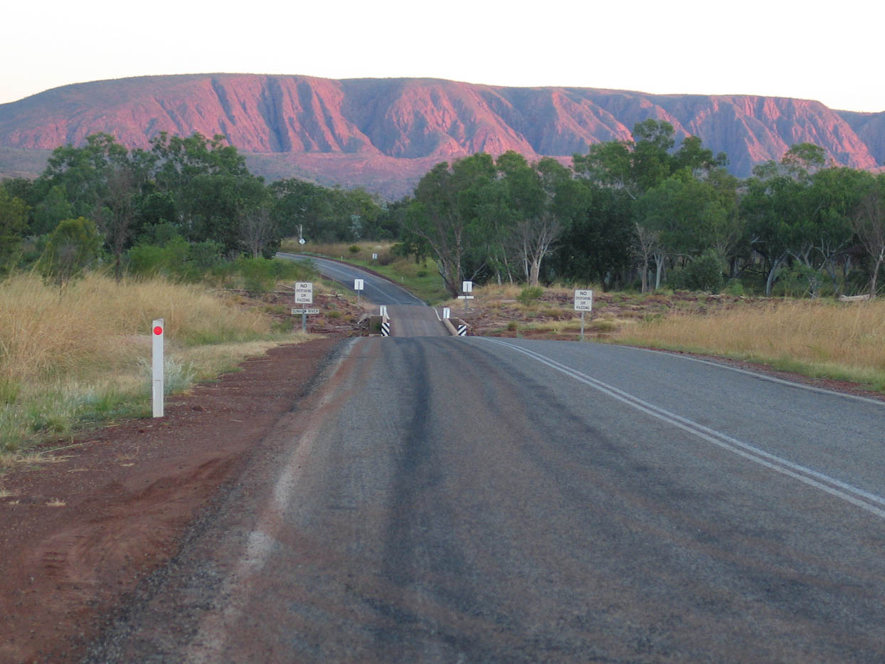 Scenic Dunham River Crossing on the Great Northern Highway. Since replaced by a new bridge further along the river. Link is to a report on cyclone Ingrid in March 2005 when this bridge was in use. In the article there is a photo o this crossing in flood.